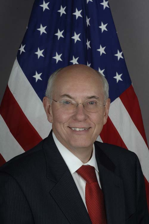 William John Garvelink. As of 2008, the United States Ambassador to the Democratic Republic of the Congo.